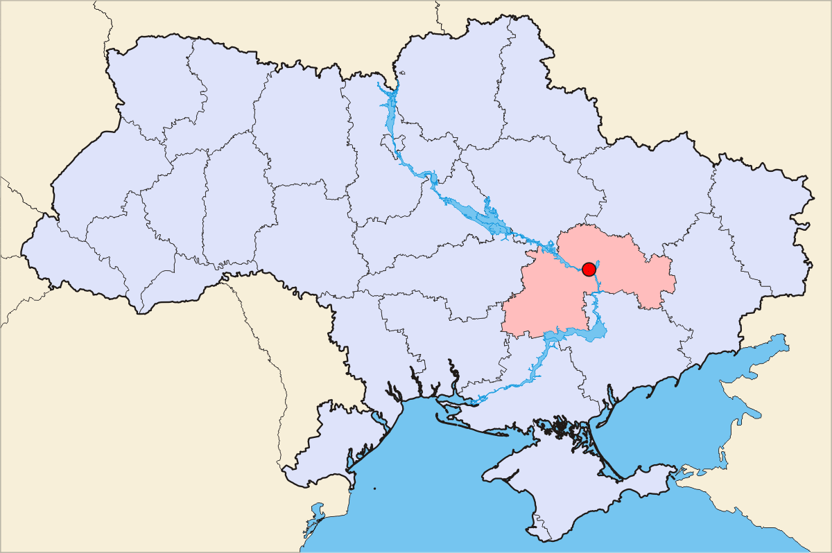 Description = Dnipropetrovsk geographical position Source = own work, Skluesener Date = 15.01.2006 Author = Skluesener Credits = Colours chosen according to a map of steschke